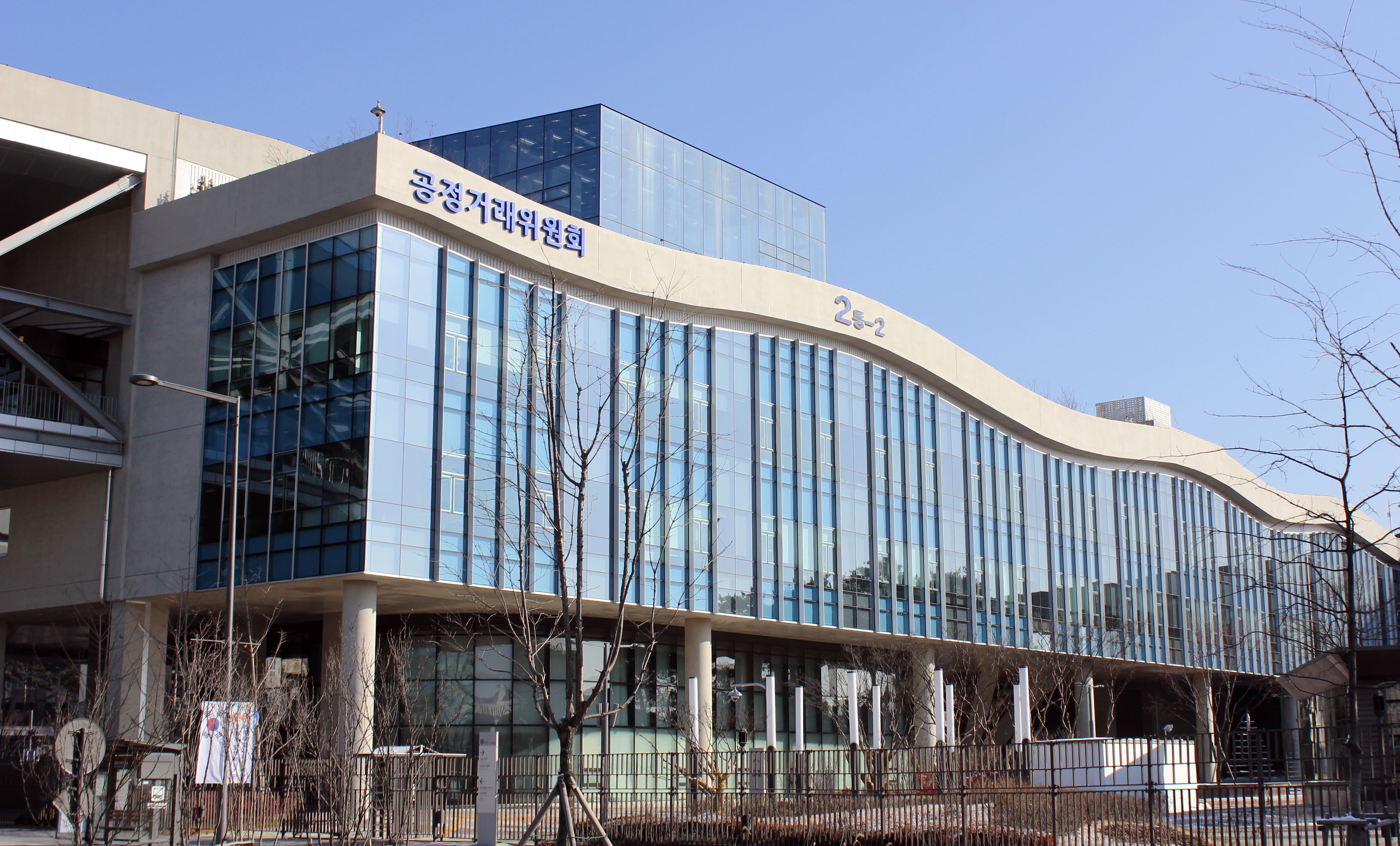 Korea Fair Trade Commission @Government Complex Sejong #2